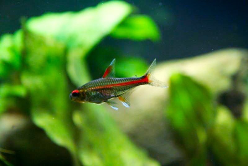 Picture of a glowlight tetra, Hemigrammus erythrozonus